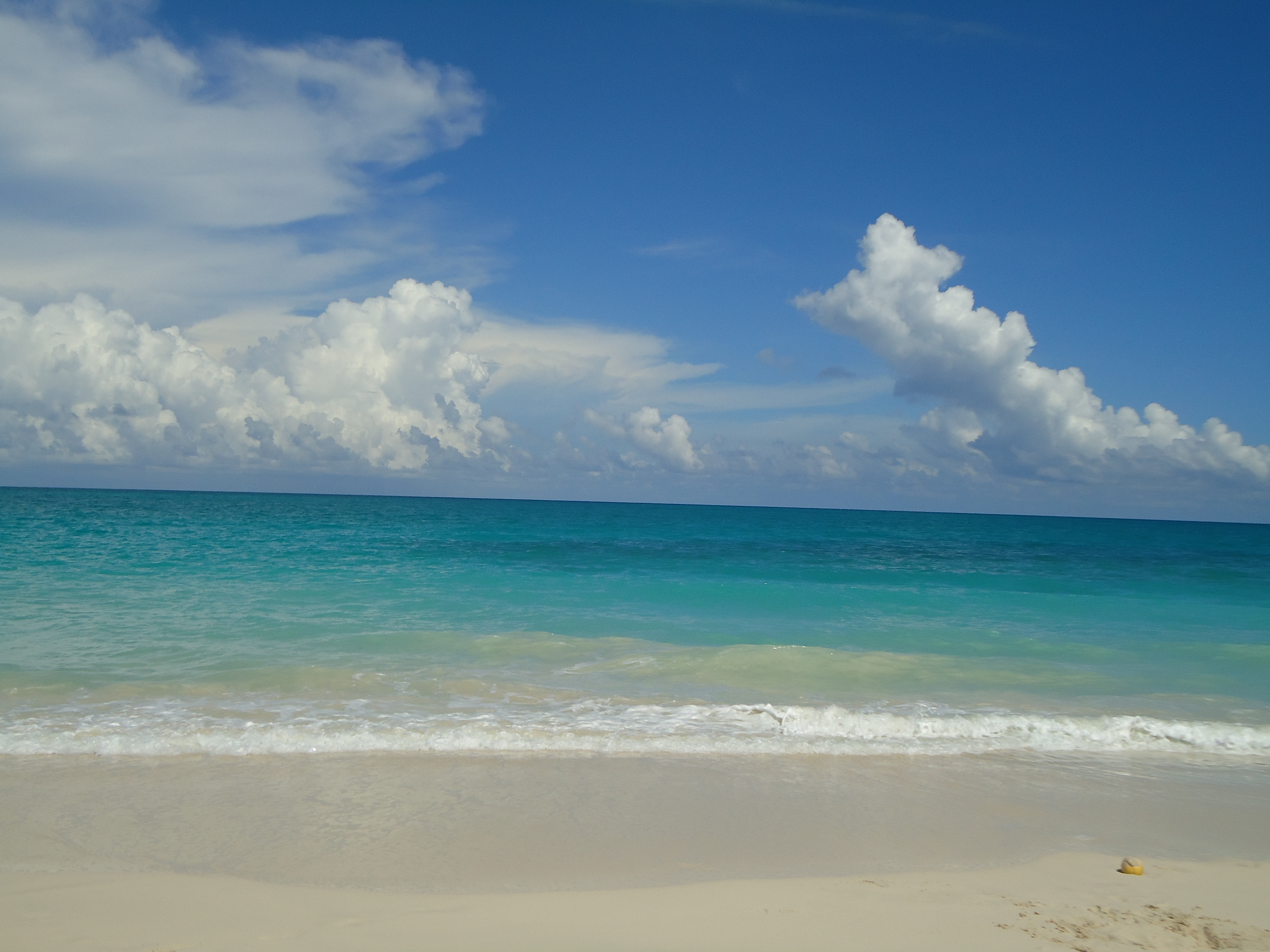 Beautiful sea shore at Andaman and Nicobar Islands